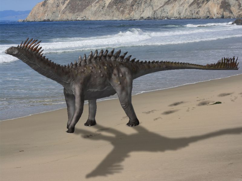 Agustinia ligabuei, a sauropod from the Early Cretaceous of Argentina. Digital.